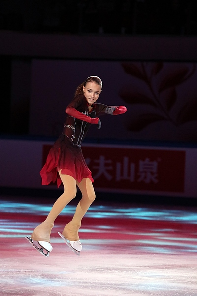 Anna Shcherbakova at the 2019 Cup of China - Gala